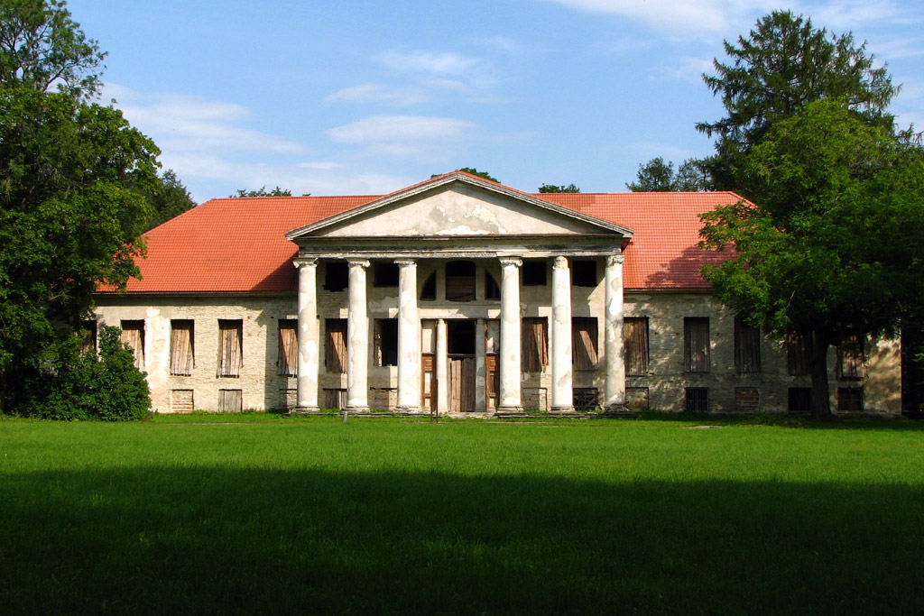 Raikküla Manor.